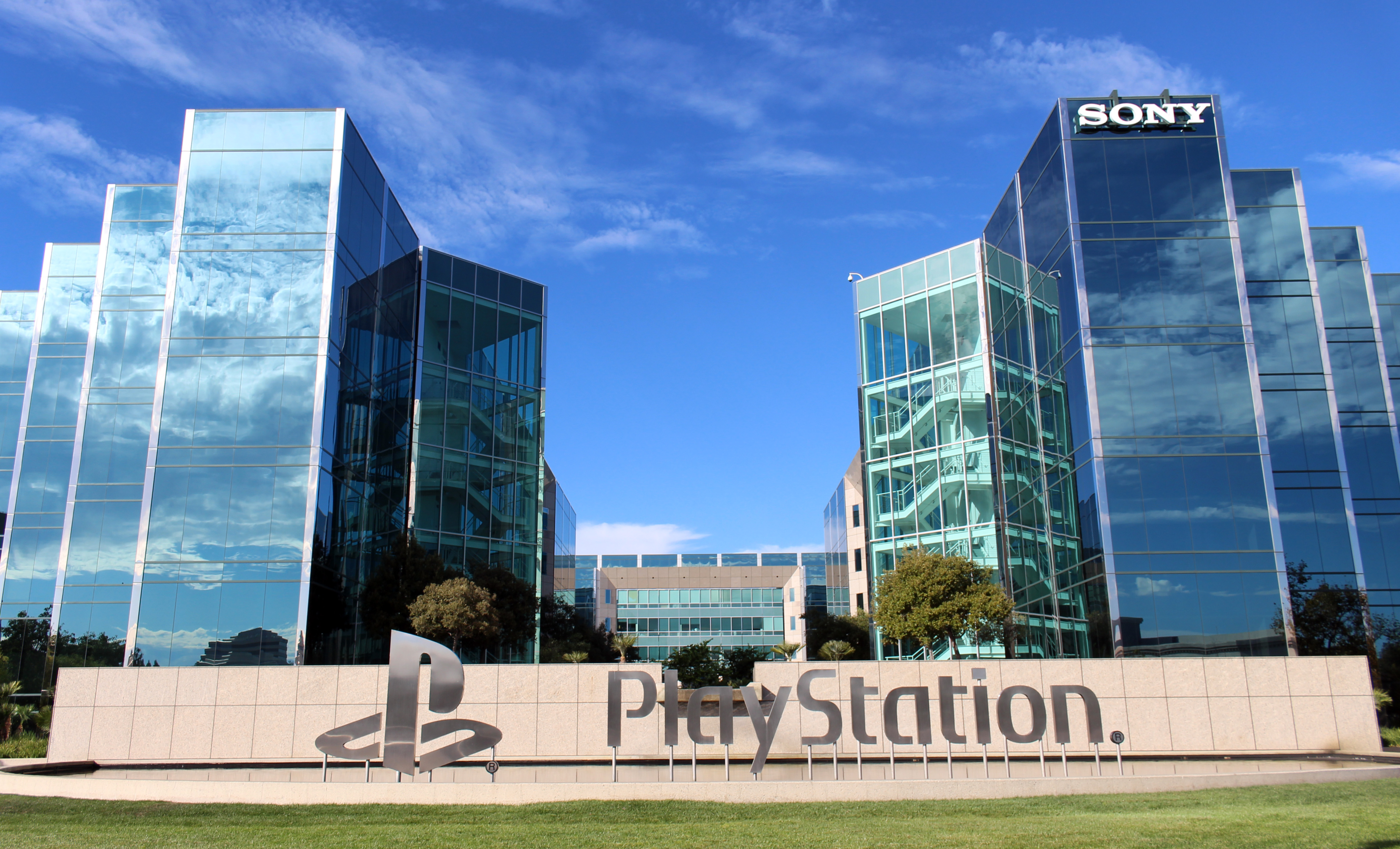 Sony Interactive Entertainment headquarters in San Mateo, California. Photographed on October 6, 2019 by user Coolcaesar.